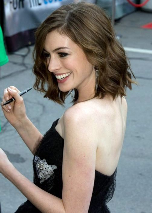 Anne Hathaway at the premiere of Rachel Getting Married, Toronto Film Festival 2008.